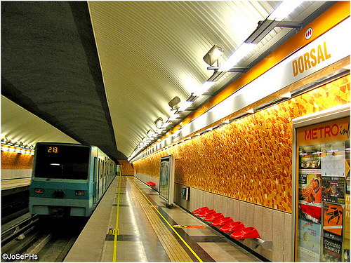 tren ns 74 en estacion Dorsal